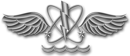 US Navy Aviation Warfare Sys­tems Operator (AW). Winged crossed electron orbits, canted with a lightning bolt passing through toward waves.